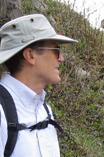 John Kirtley in profile with sunglasses and hat